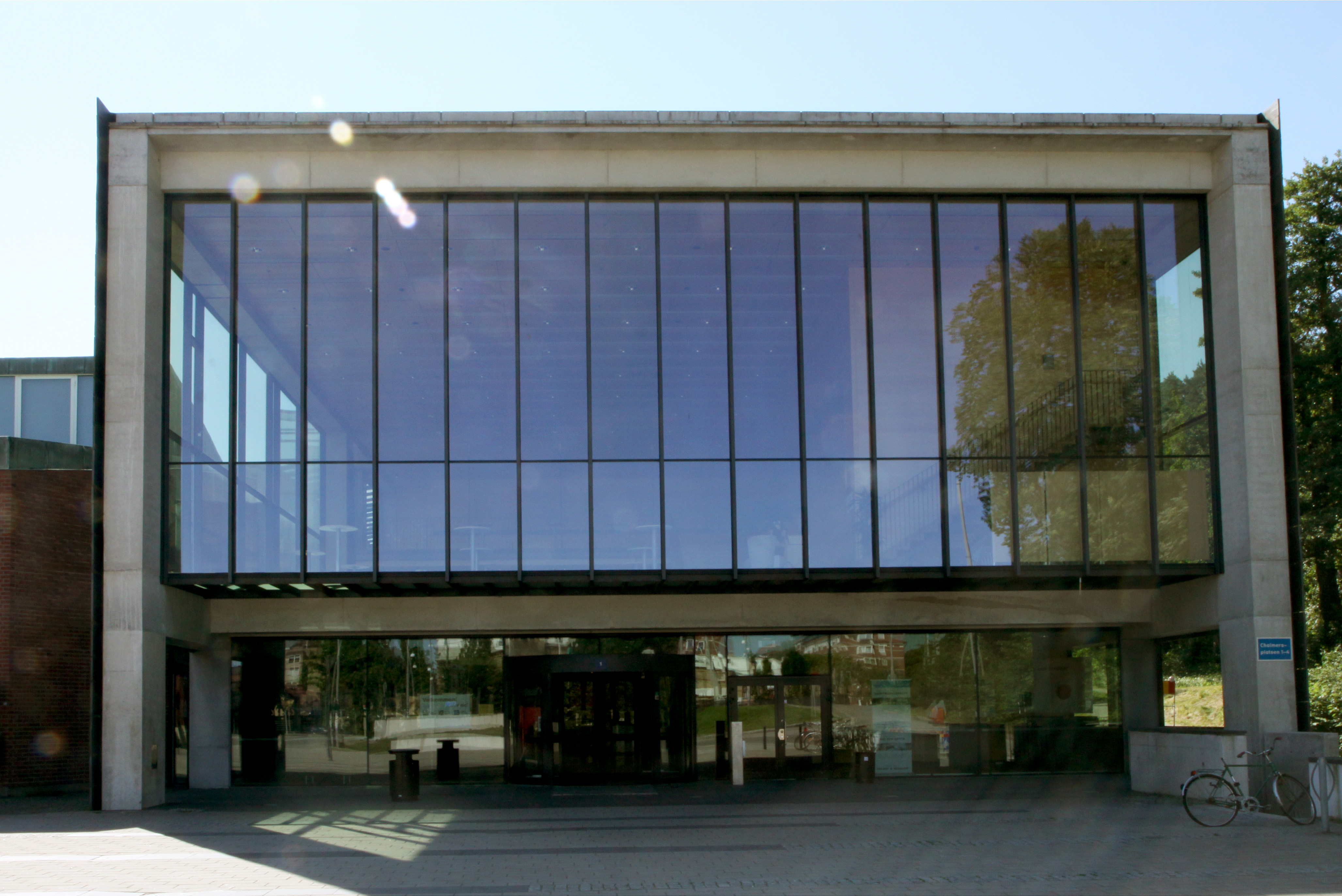 The front of Chalmers Kårhus, Gothenburg